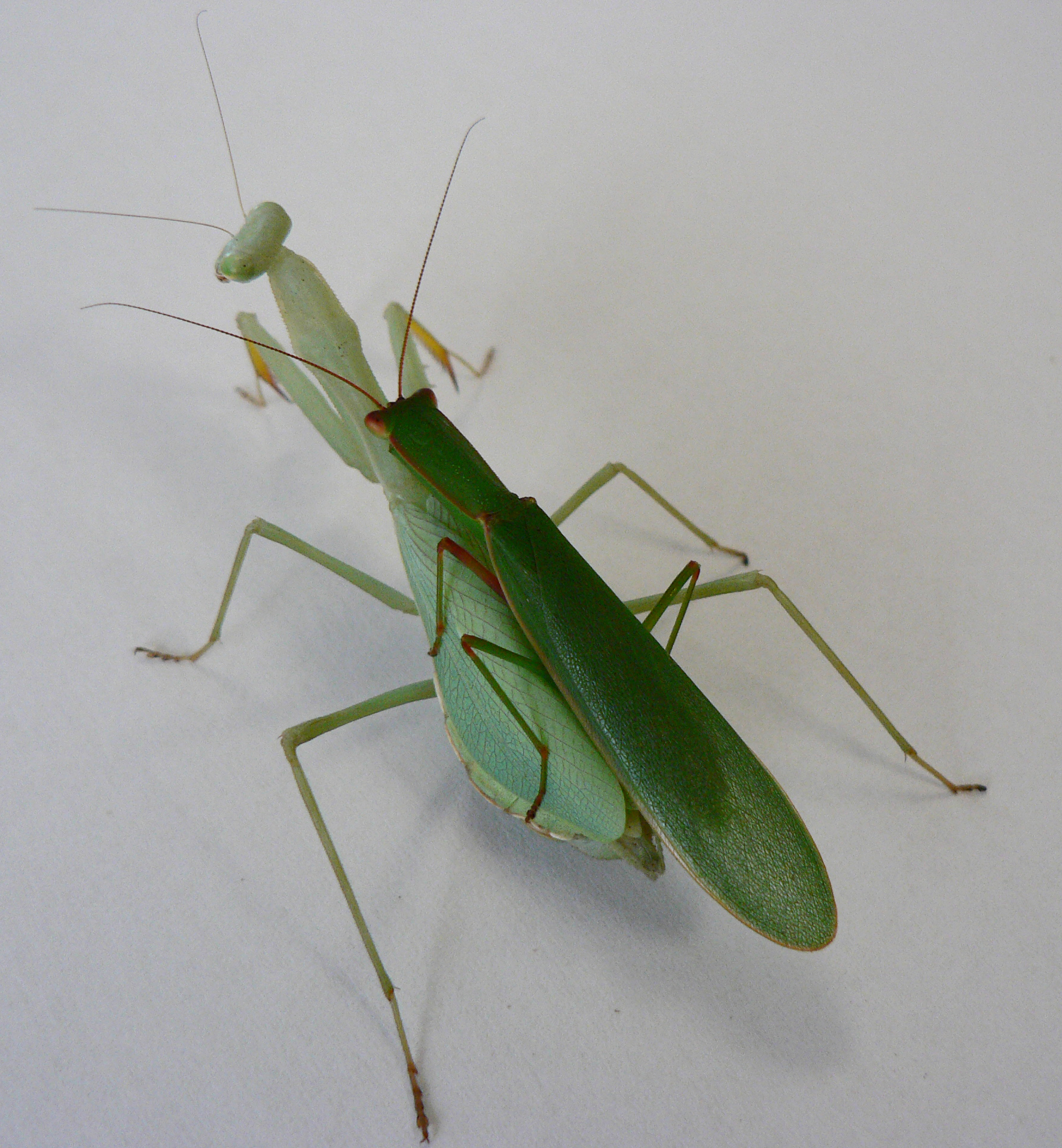 Photo of heterospecific mating attempt between NZ and SA mantises